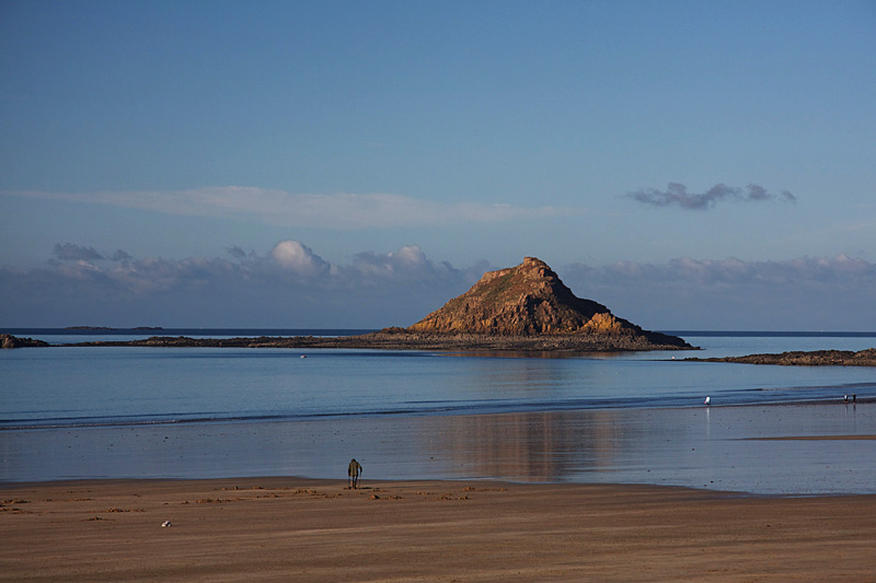 The Verdelet ornithological reserve